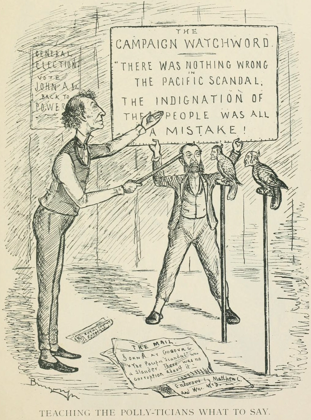 Sir John A. Macdonald revises history a bit, downplaying the Pacific Scandal as he prepares for the General Election that will bring him back to power.